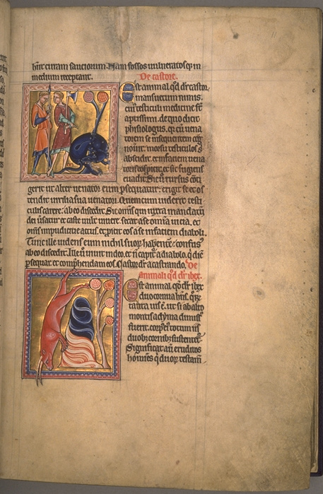 Folio 11 recto from the Aberdeen Bestiary.